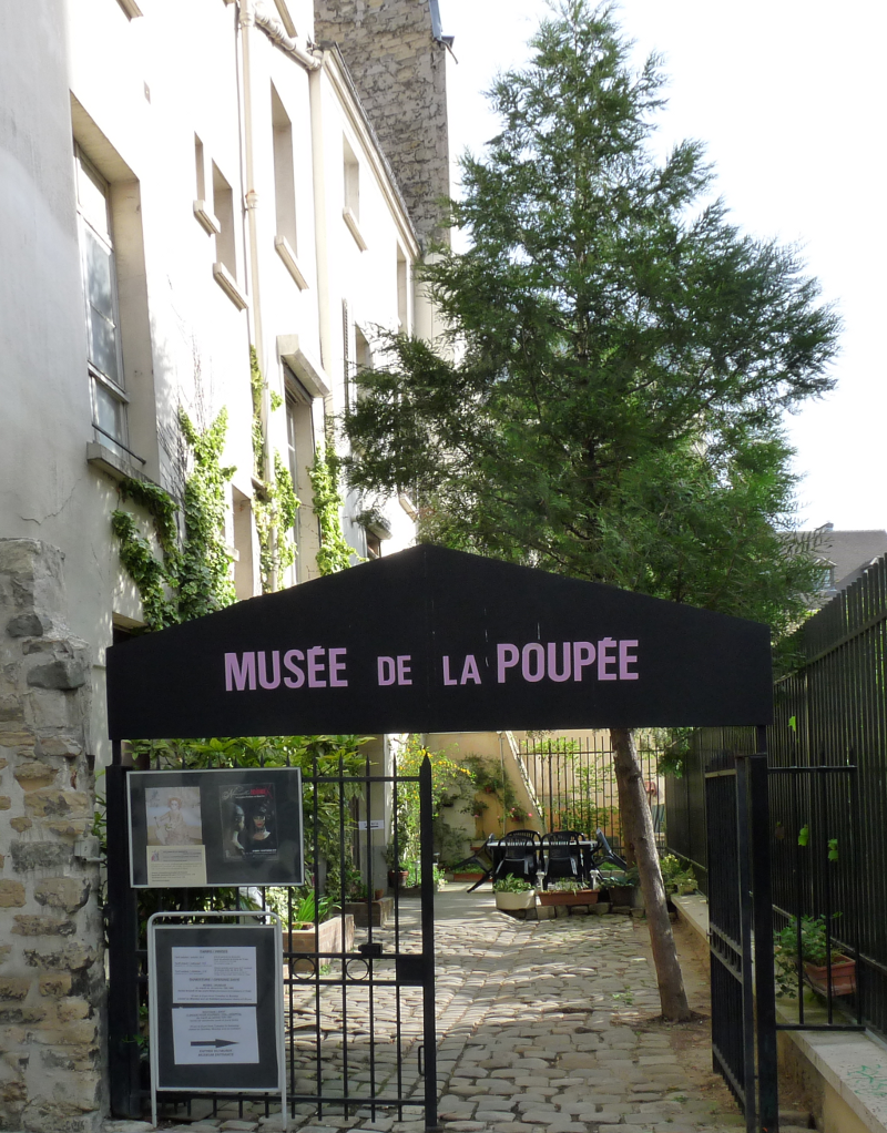 Entrance of the Musée de la Poupée in Paris